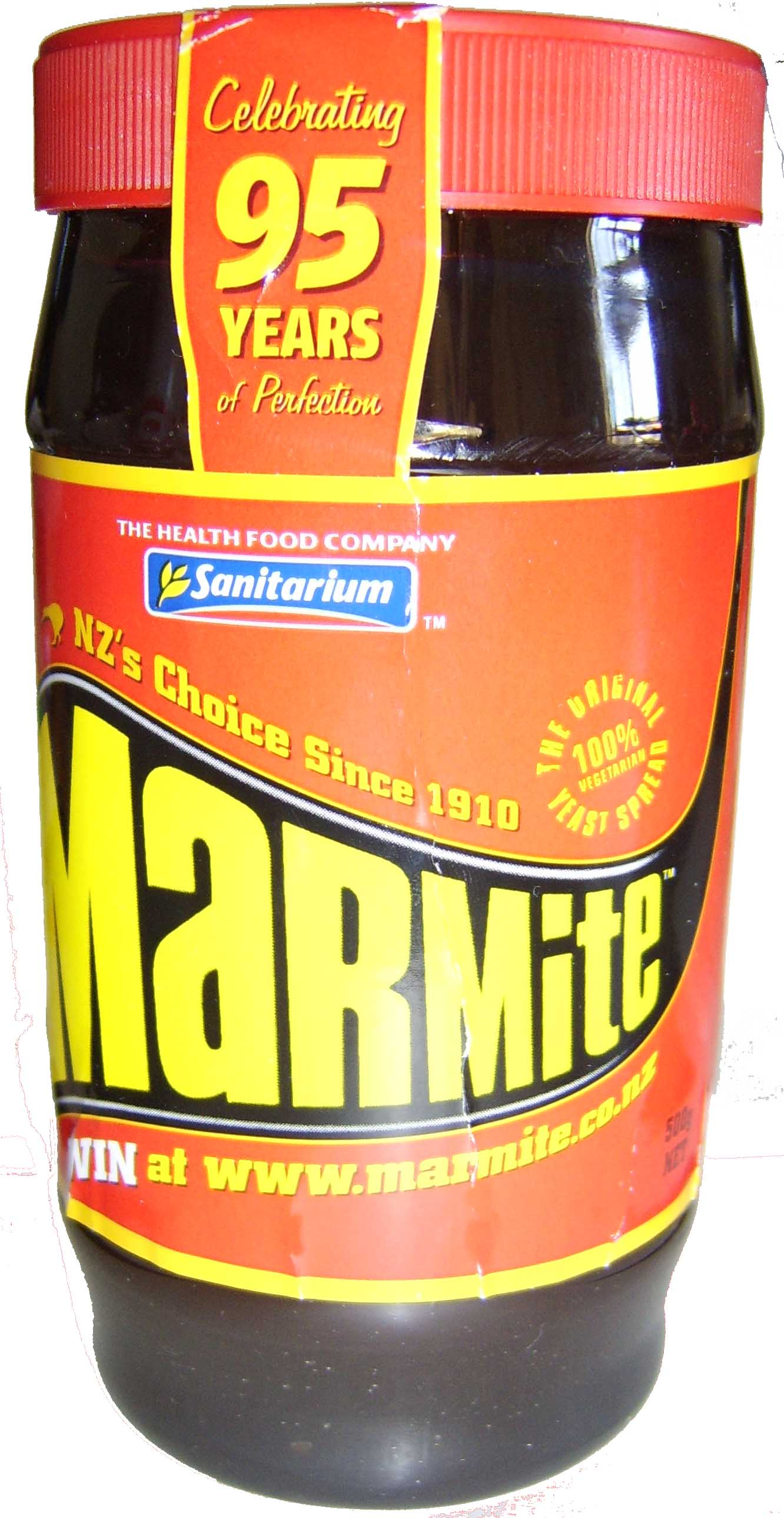 New Zealand variation of Marmite. 95th anniversary packaging design. Design of label consists of primarily text and is therefore not copyrighted